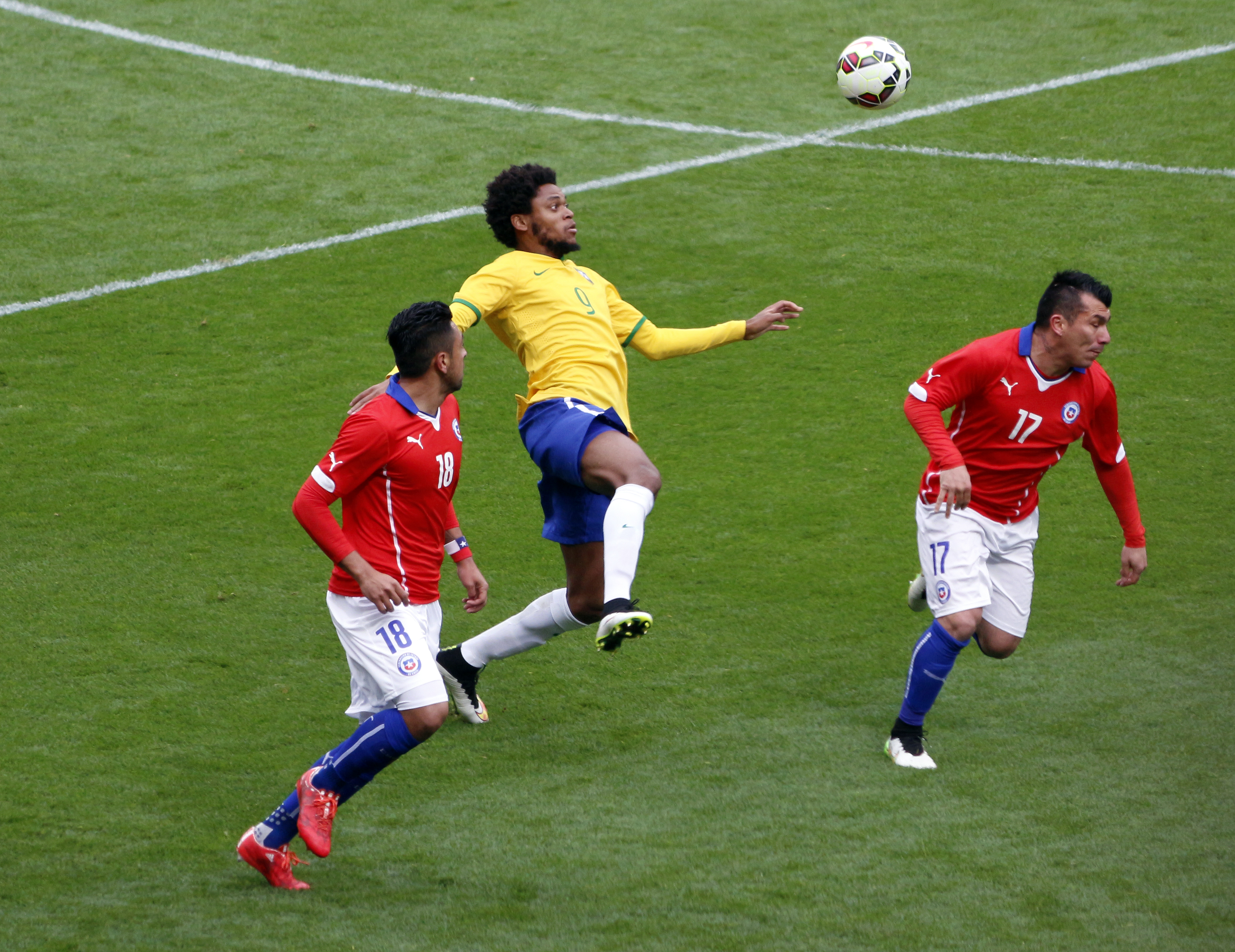 Luiz Adriano Gary Medel Gonzalo Jara Brazil vs Chile, International Friendly, 29th March, 2015, Emirates Stadium, London